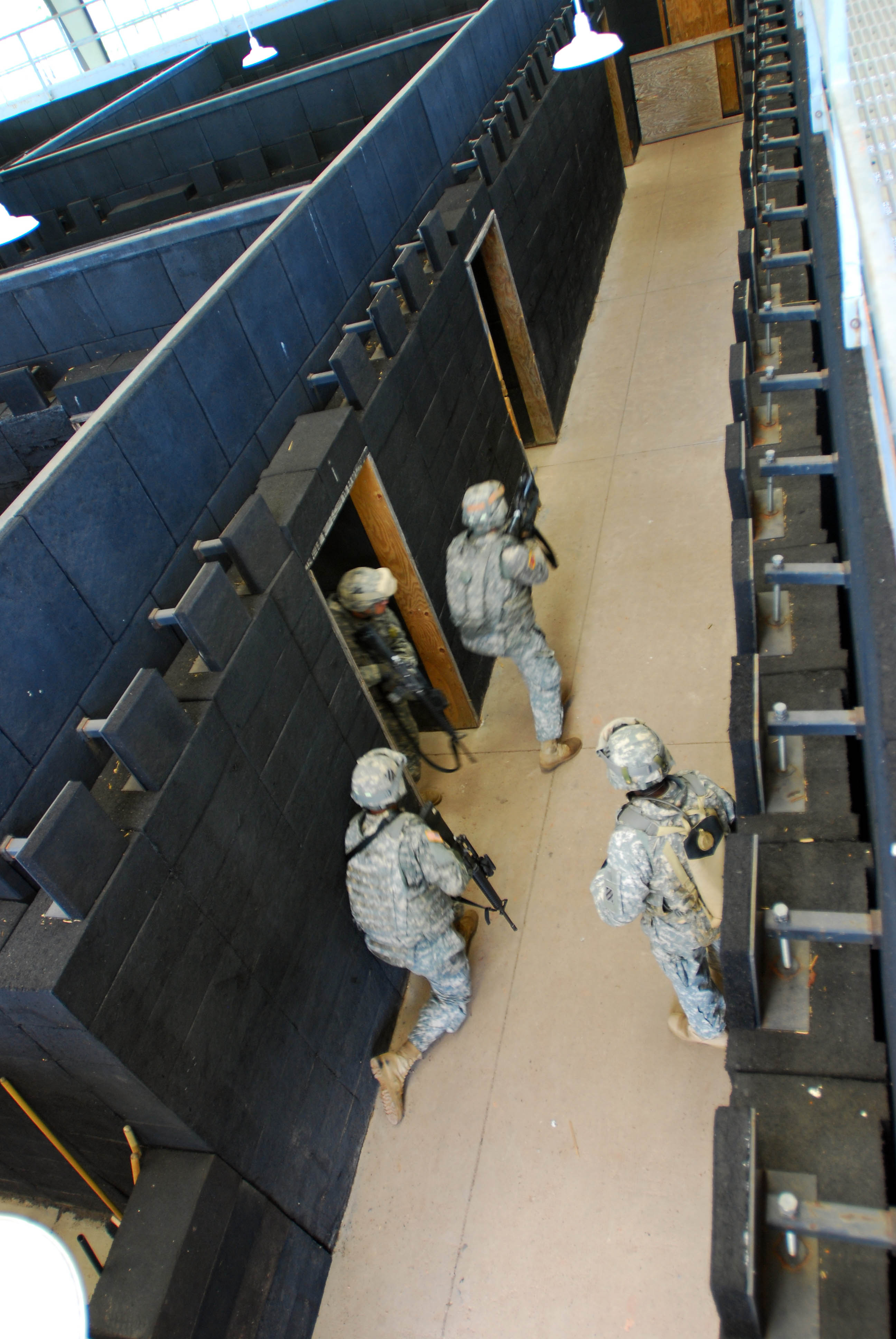 Soldiers from E Co., 4/3 Avn., make their way down a hallway after clearing a room during a military operations on urban terrain live-fire exercise at the shoothouse at Fort Stewart, Aug. 26.